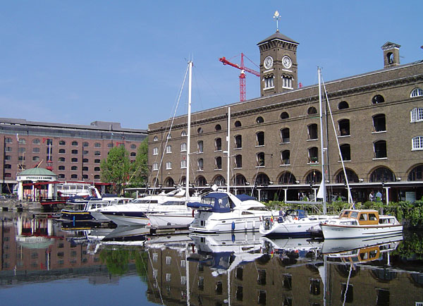 June 2004 view of St Katharine Docks, London Image by ChrisO